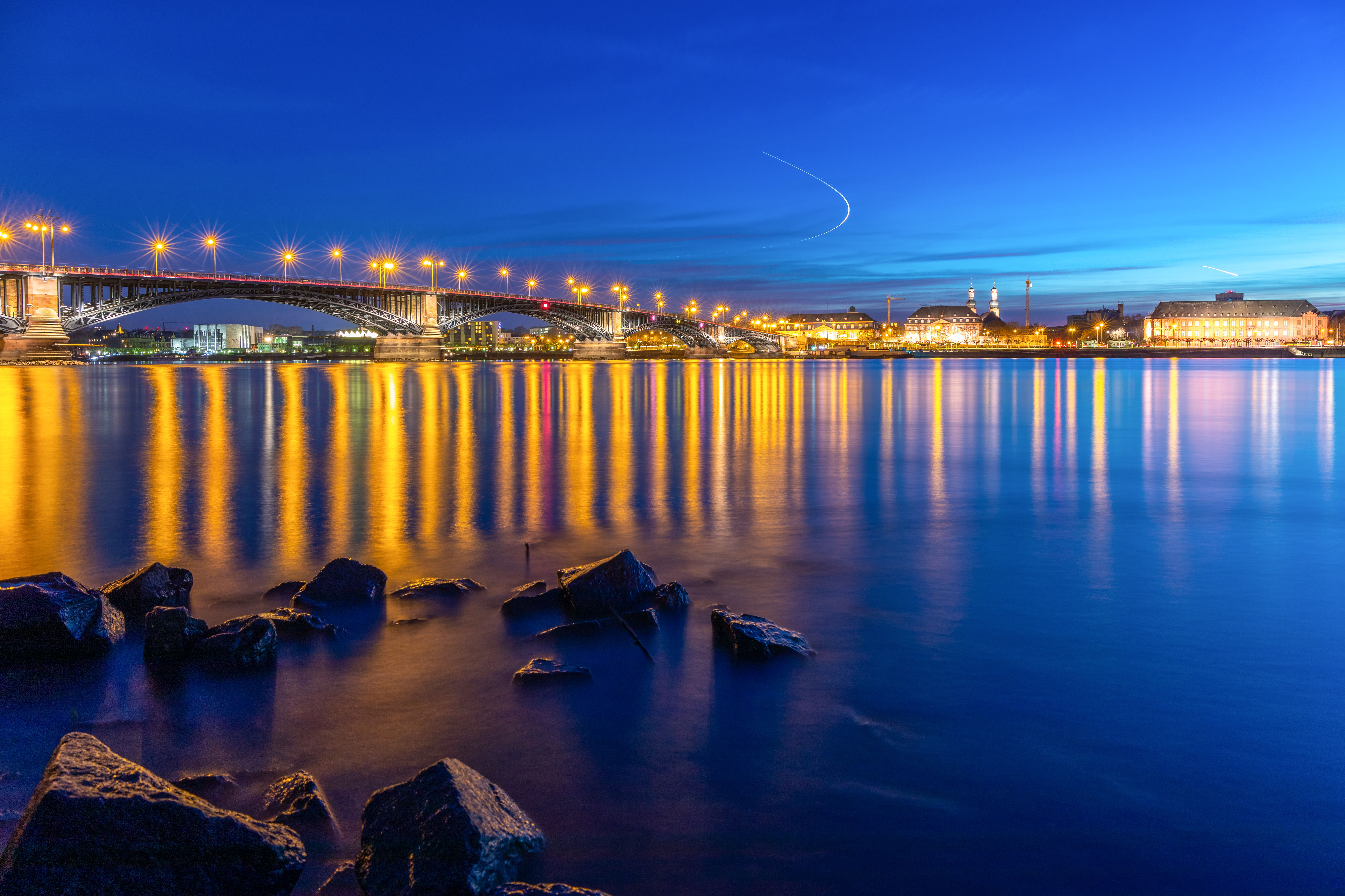 View from Kastel (Hesse) to Mainz (Rhineland-Palatine) over the river Rhine during blue hour. The bridge "Theodor-Heuss-Brücke" connects the cities of Wiesbaden (capital of Hesse) and Mainz (capital of Rhineland-Palatine).